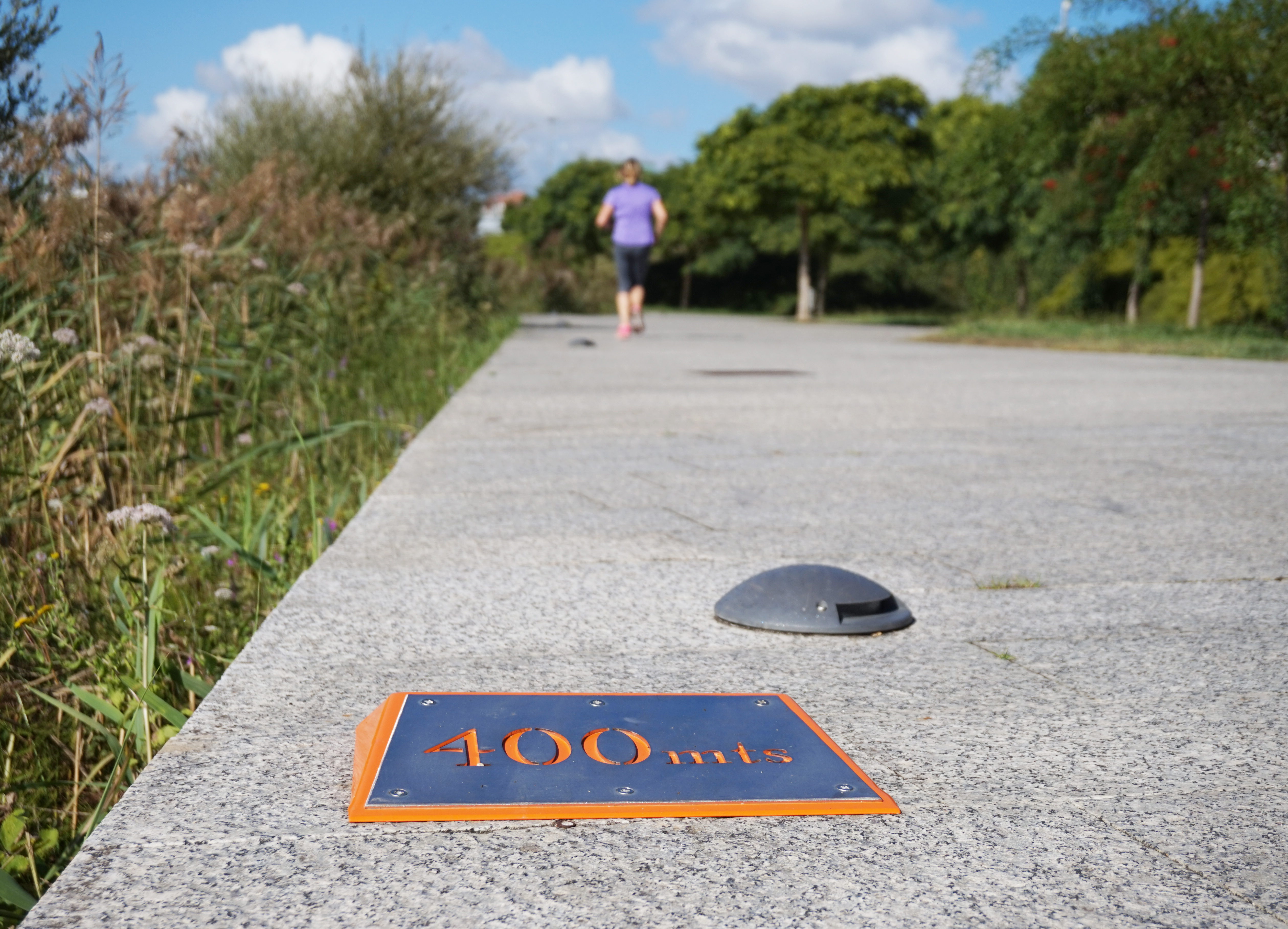 Number 400 on ground at the Parque de las Llamas in Santander, Spain. This photograph was taken with a Sony Alpha a5000.